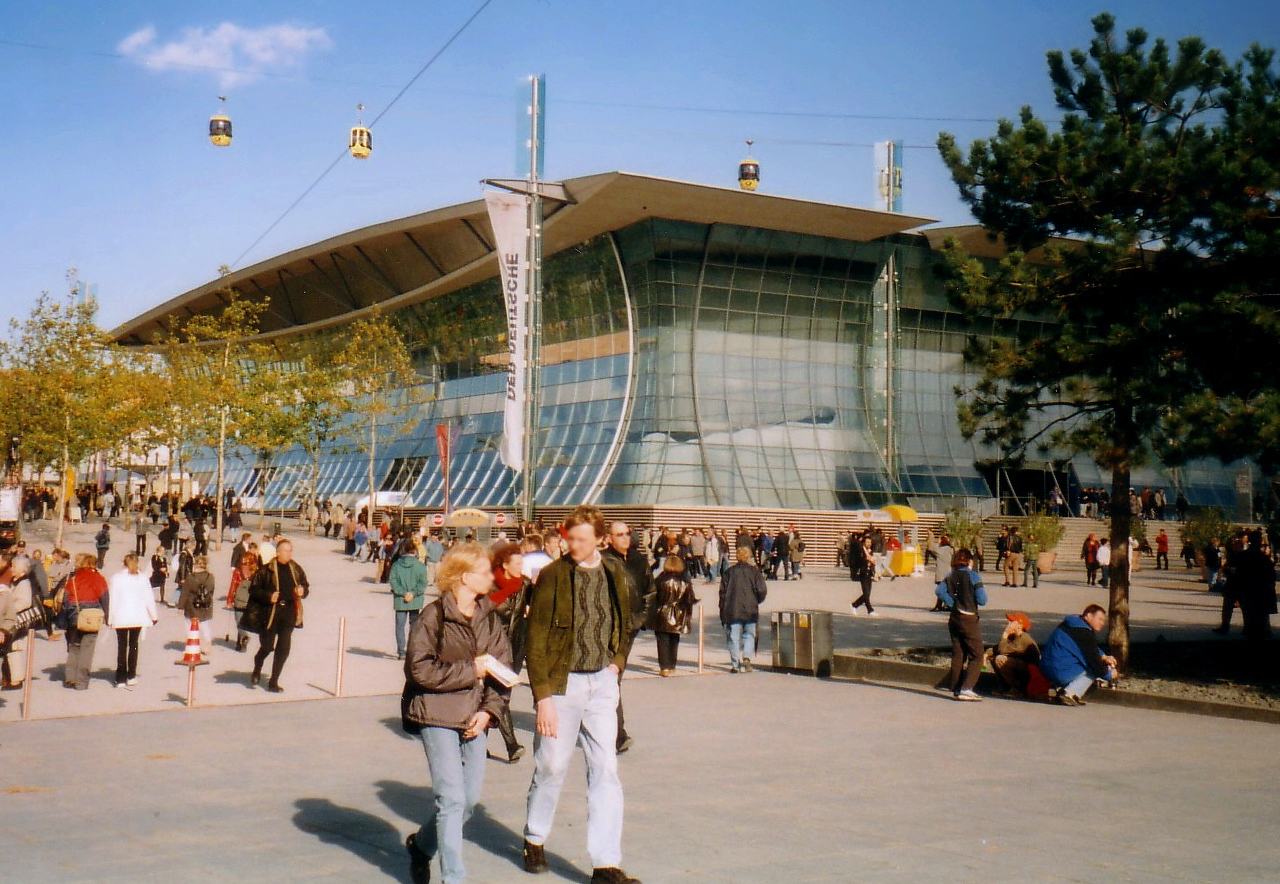 Expo 2000, Hanover, Germany - pavilion of Germany